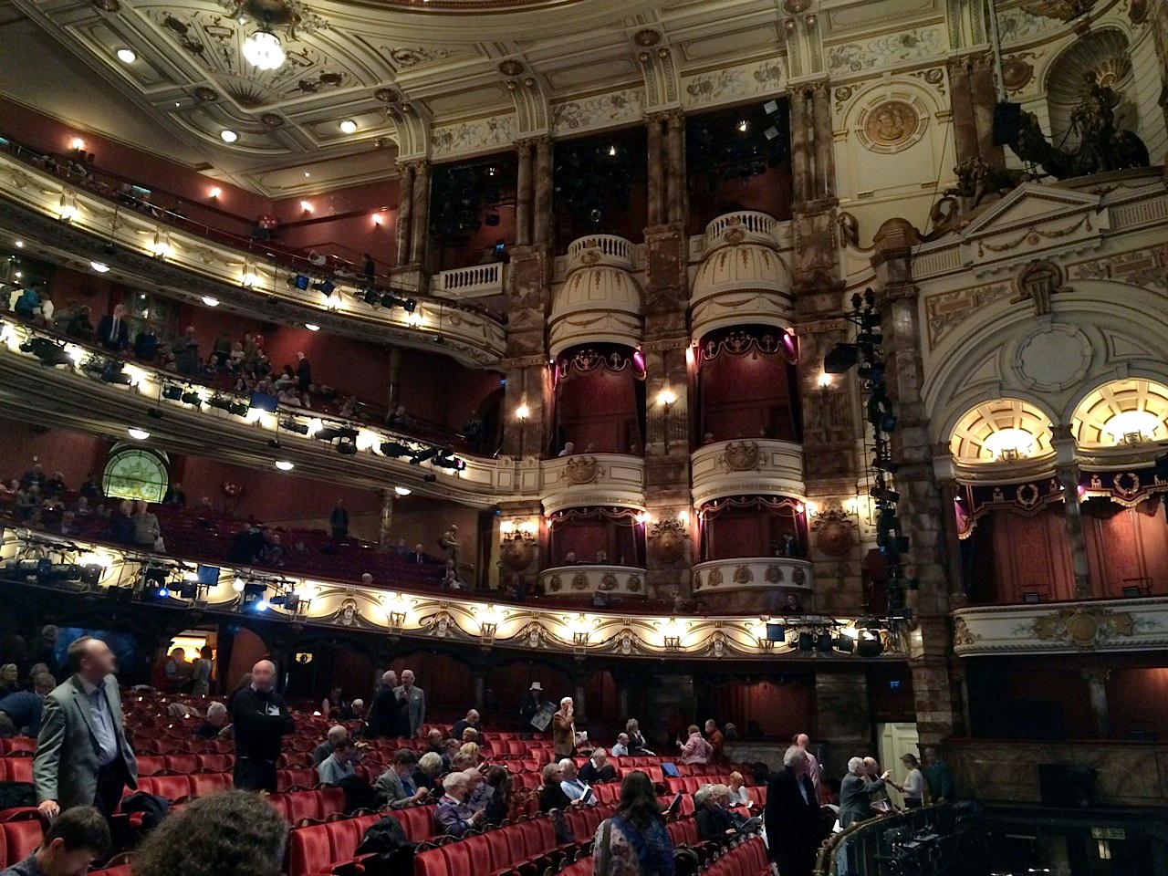 London, England. Interior view of the London Coliseum during the intermission of the ENO production of The Mastersingers of Nurnberg on March 3rd, 2015.